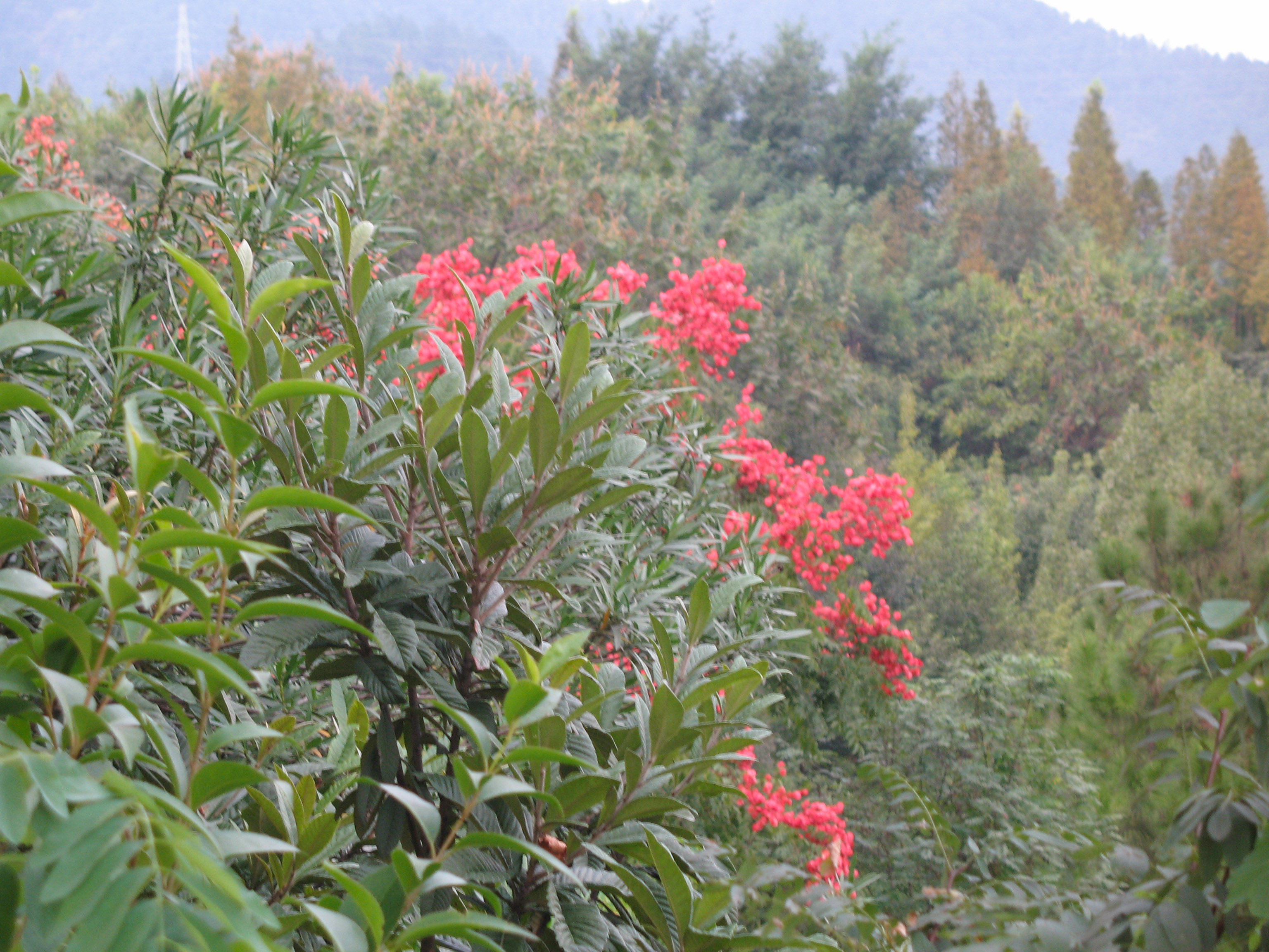 Plants in the campus of Dongfeng High School.